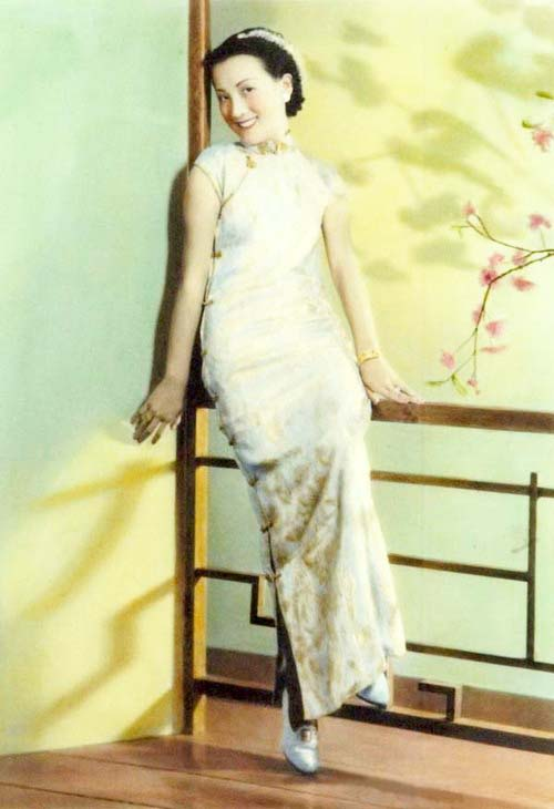 Photograph of Zhou Xuan, Chinese actress